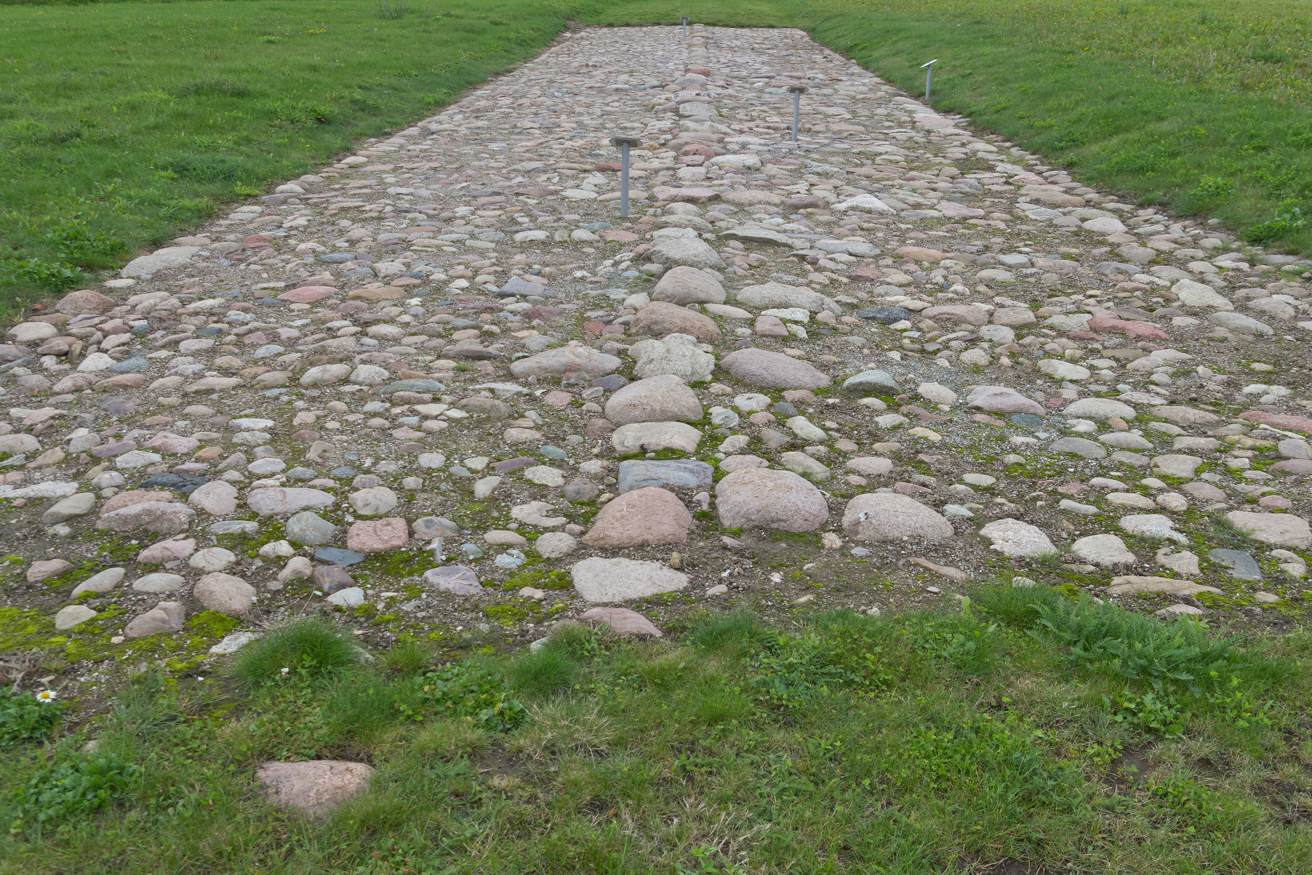 Archaeological Park Freyenstein, Brandenburg, Germany.